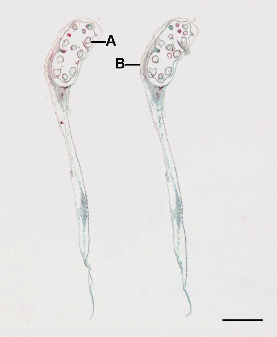 Longitudinal section of two Isoetes sporangia. A=Spore, B=Megasporangium. Scale=0.5mm.